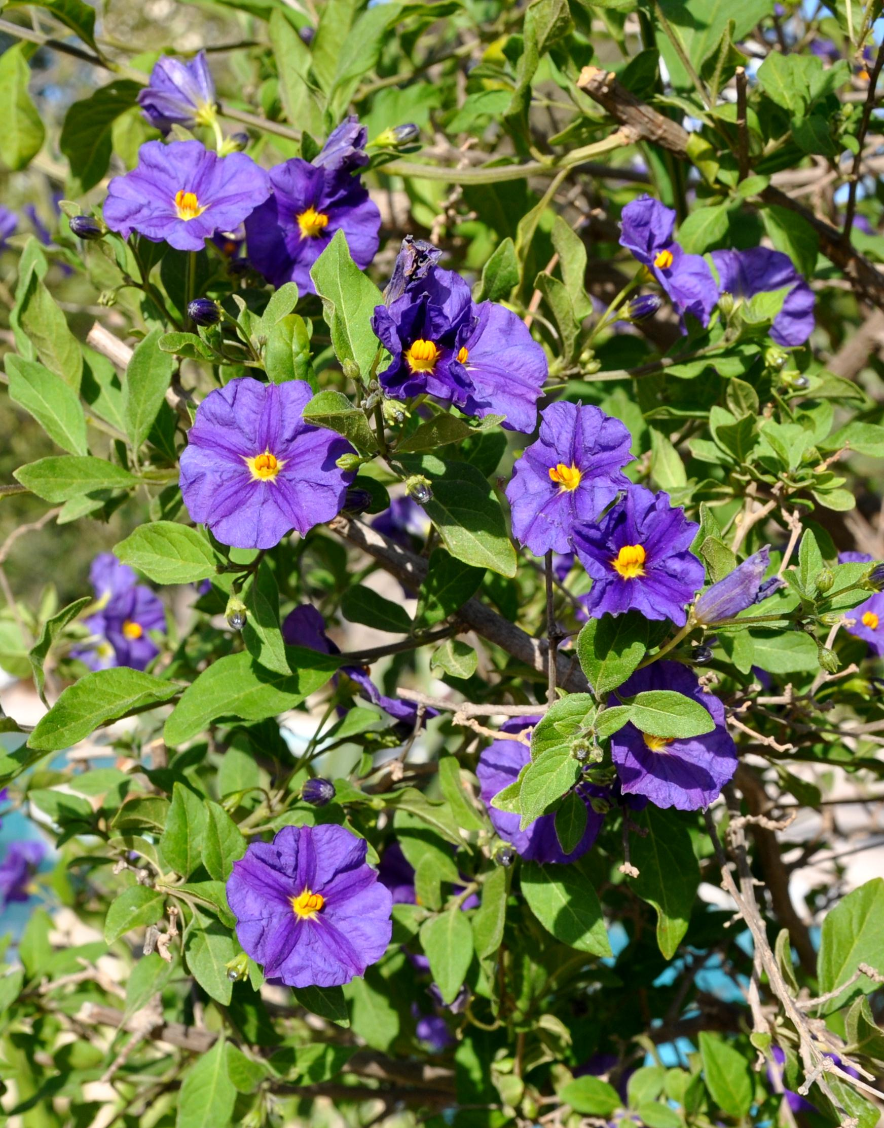 Bethlehem